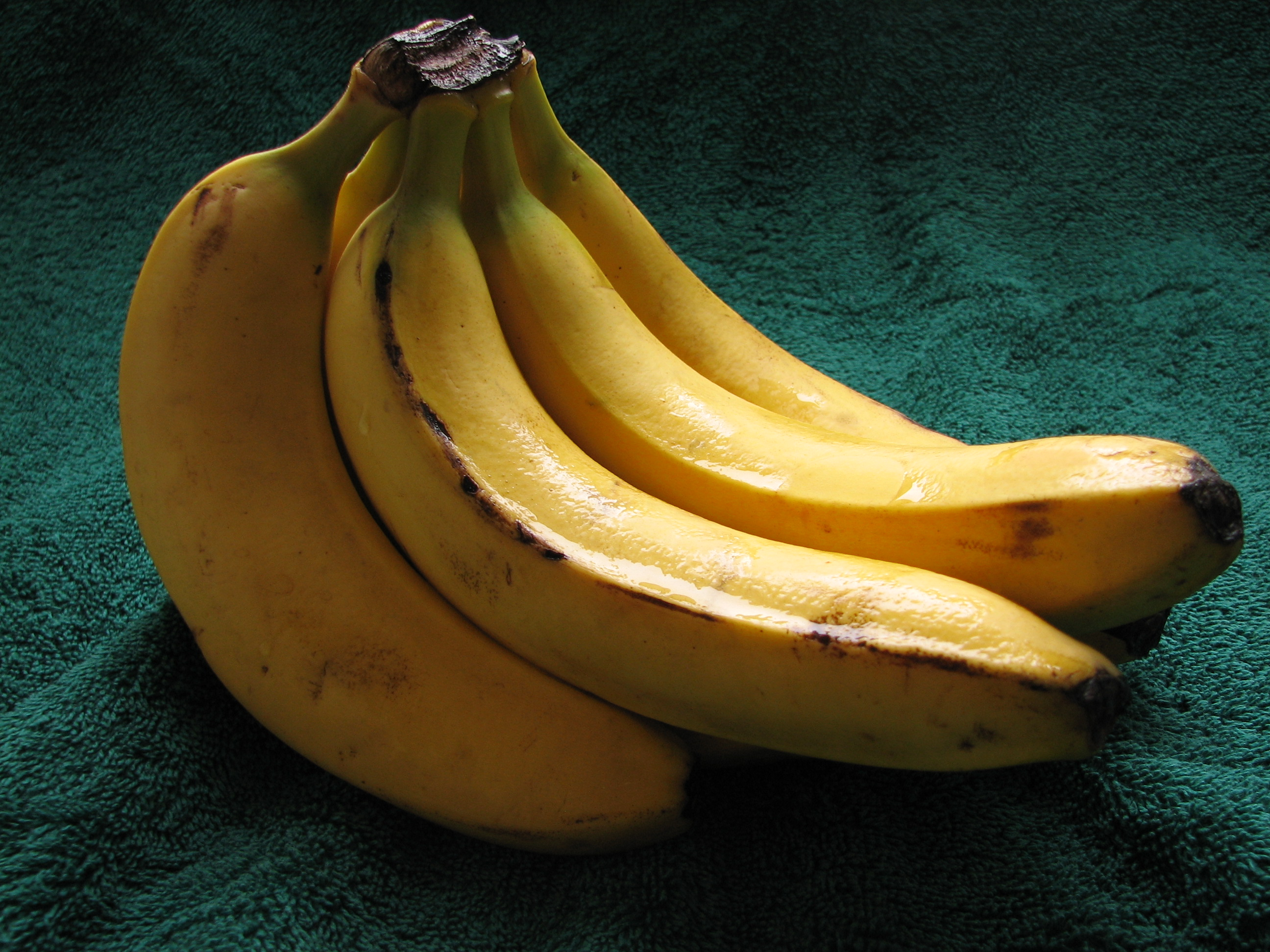 A hand of bananas with enhanced colours. Using modes "Cloud lighting" and "Positive Film"